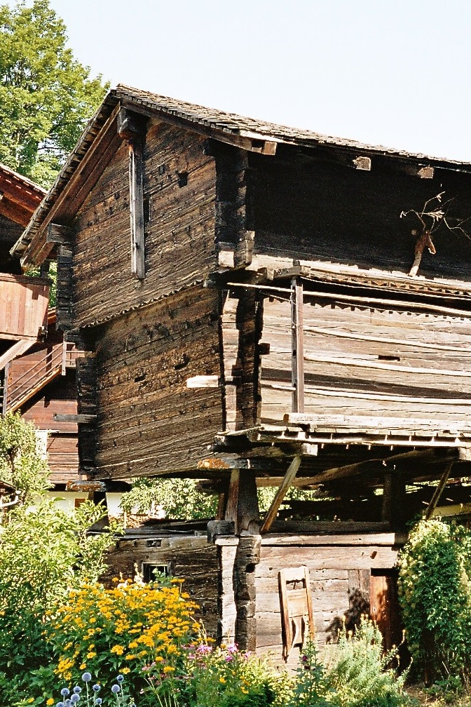 Author:Pierre Dèzes A raccard in the Village of Fiesch, Vallis, Switzerland